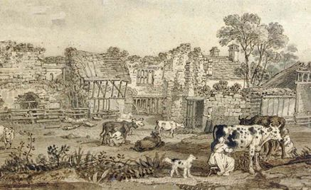 Drawing of remains of Colcombe Castle, Colyton, Devon, by James Ward (1769-1859), sold by Christie's New York, 30 Jan 2009 lot 304, collection of Julius S. Held.